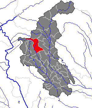 This map shows the area of the Gemeinde (municipality) Sankt Kathrein am Offenegg in the Bezirk (district) Weiz, Styria, Austria.